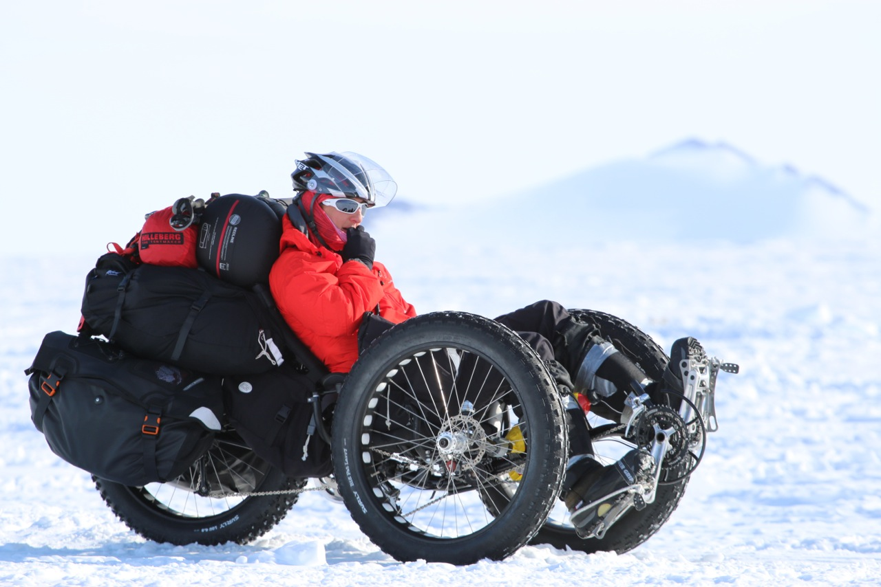 Maria Leijerstam on her Polar Cycle